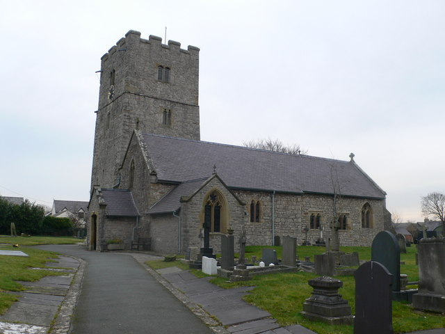 St Michael's Church, Caerwys The earliest reference to this church was in the mid 13th century, but there may have been a church here from the 8th century.